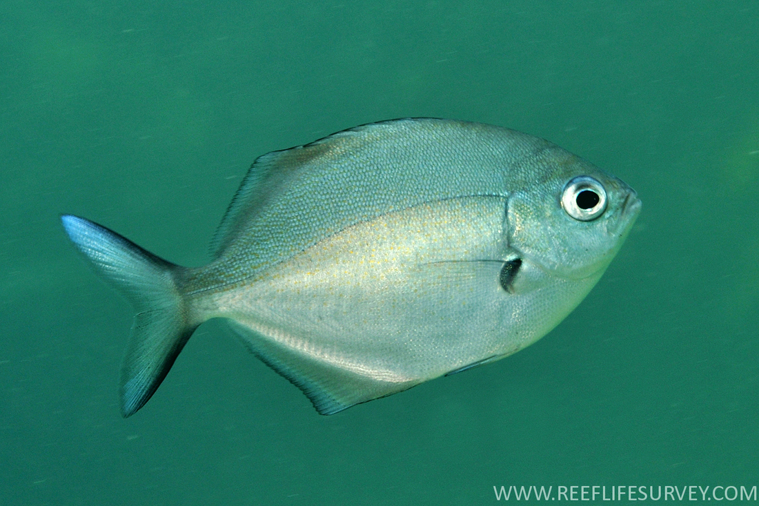 A juvenile Silver Sweep, Scorpis lineolata, in Sydney, New South Wales.